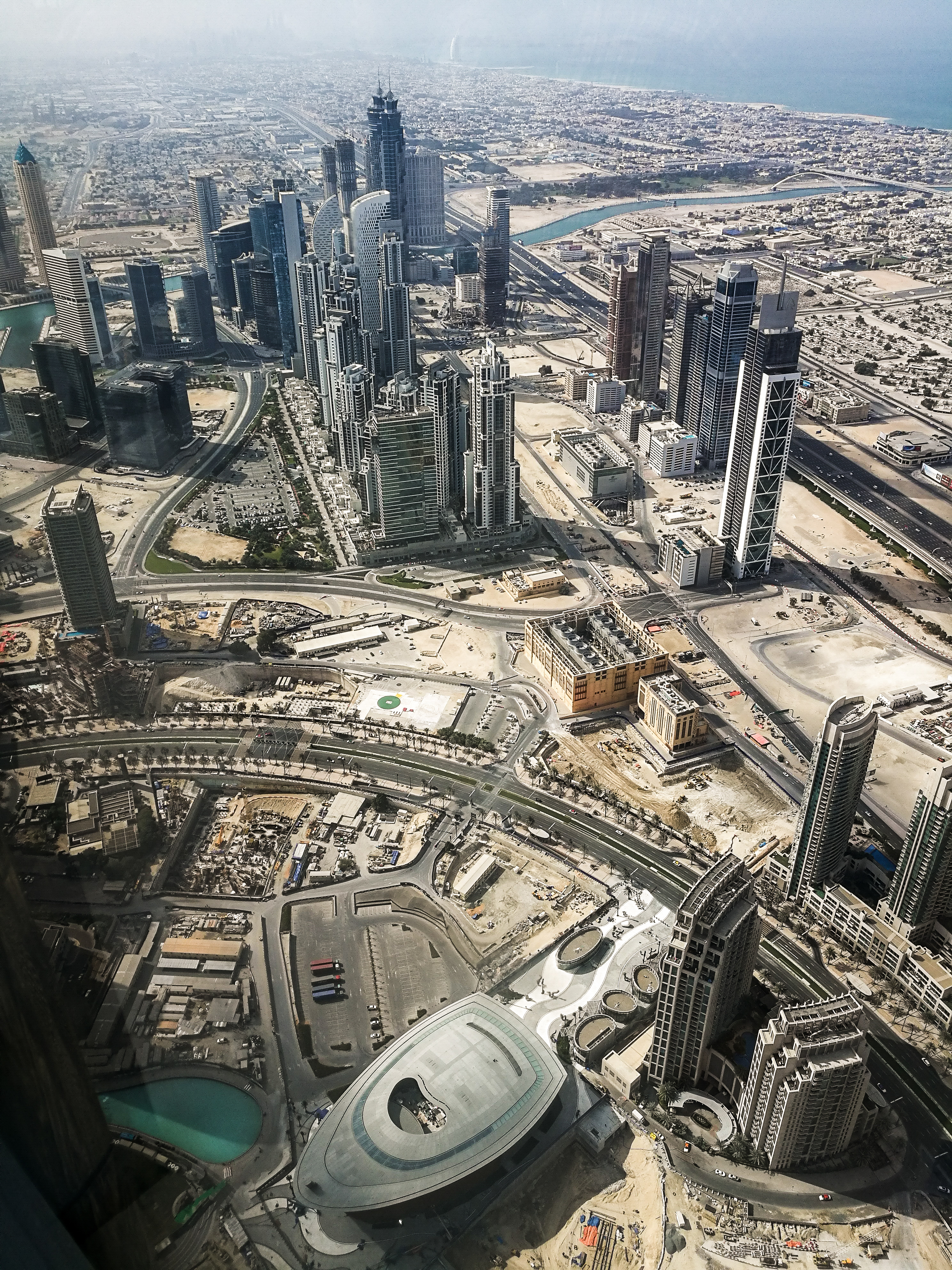 Burj Khalifa, Dubai, United Arab Emirates